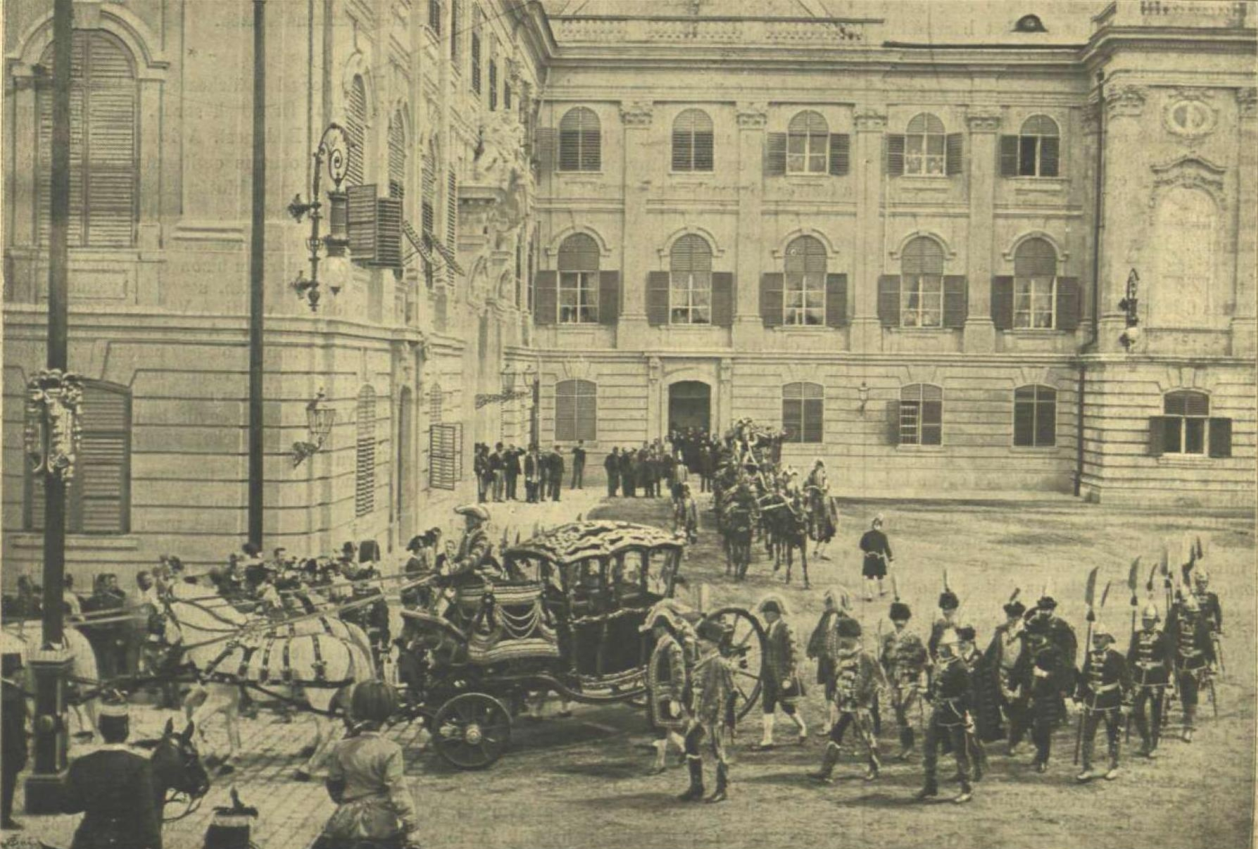 Delivering the Holy Crown from the royal palace to the Mathias Church